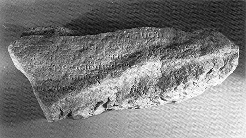 The Singapore Stone, a fragment of a large sandstone slab which originally stood at the Singapore River mouth, now displayed at the National Museum of Singapore. The Stone bears an inscription that has not been deciphered.